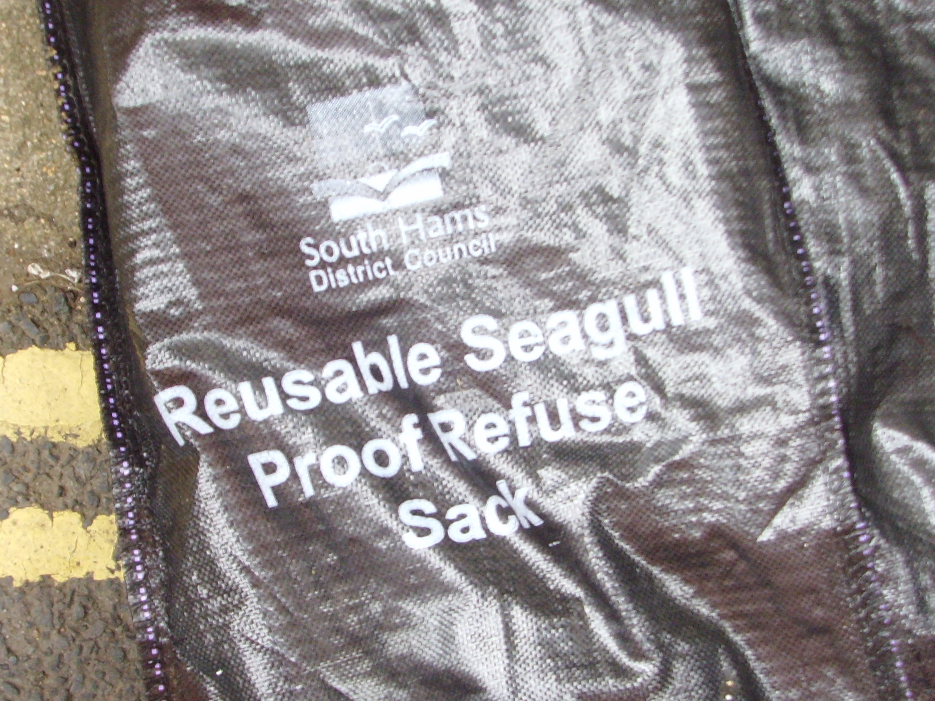 A rubbish bag designed to withstand seagull attack.